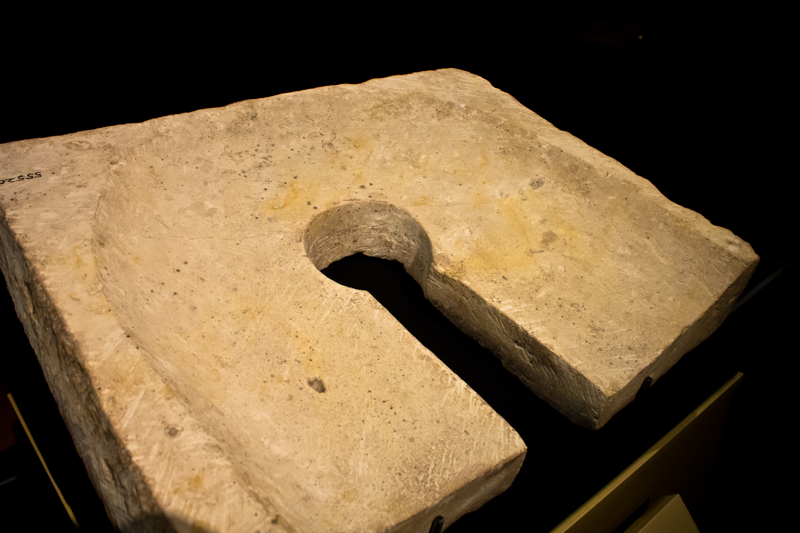 This is a limestone Egyptian toilet seat from el-Amarna, Egypt. It dates to the 18th dynasty of Egypt's New Kingdom during the reign of king Akhenaten in the 14th century BCE. This object today forms part of the permanent collection of the Cairo Museum of Egypt. This photo was taken at the King Tut exhibition at the Pacific Science Center in Seattle, Washington State, USA.